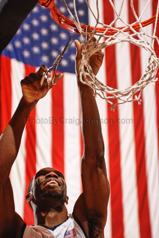 The NAU Lumberjacks win the 2007 Big Sky Conference, so Ruben Boykin, Jr. takes down the nets at the Walkup Skydome to celebrate - the large flag is one of several draped in the venue